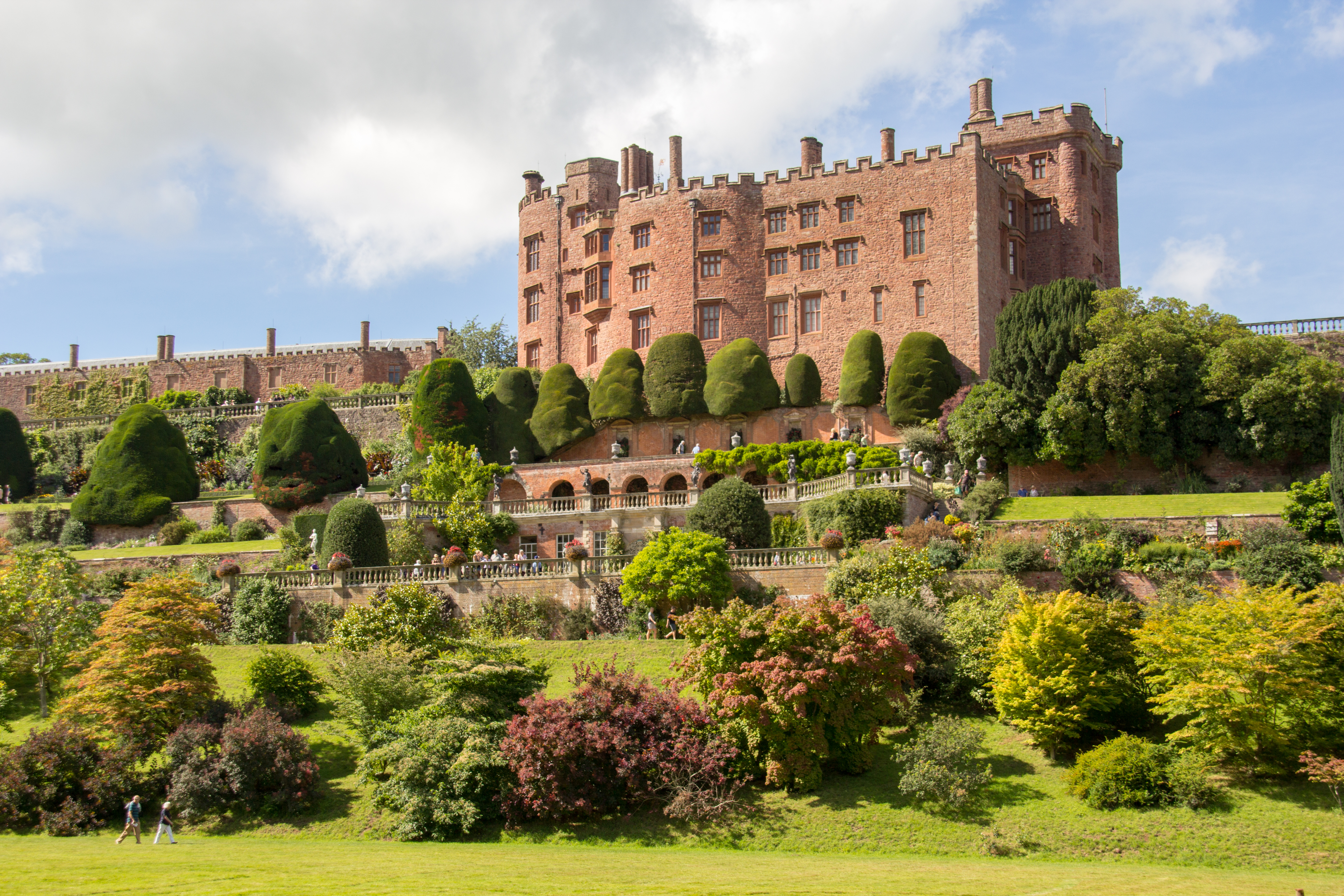 Powis Castle, Wales, United Kingdom